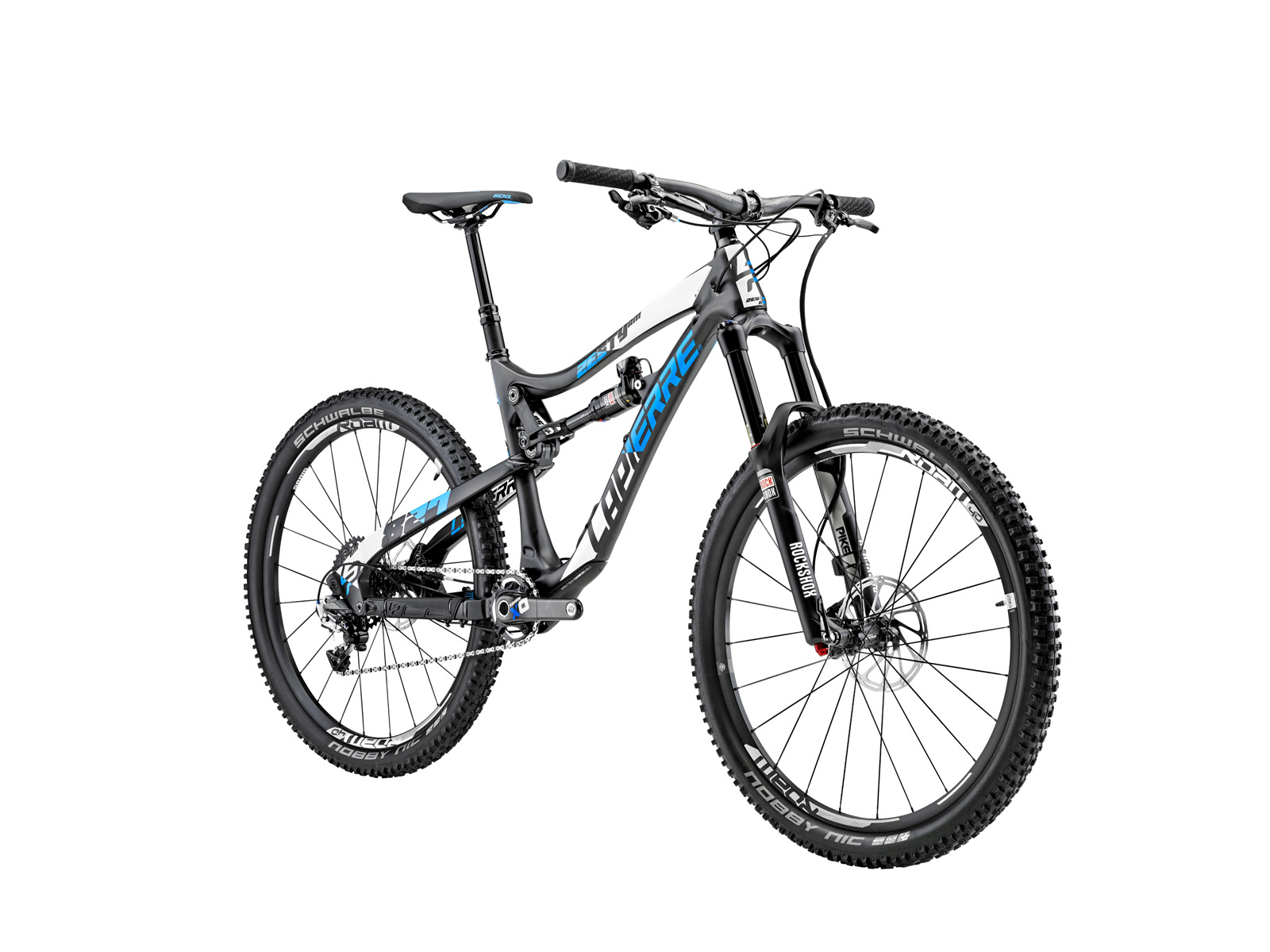 Lapierre Zesty AM 827